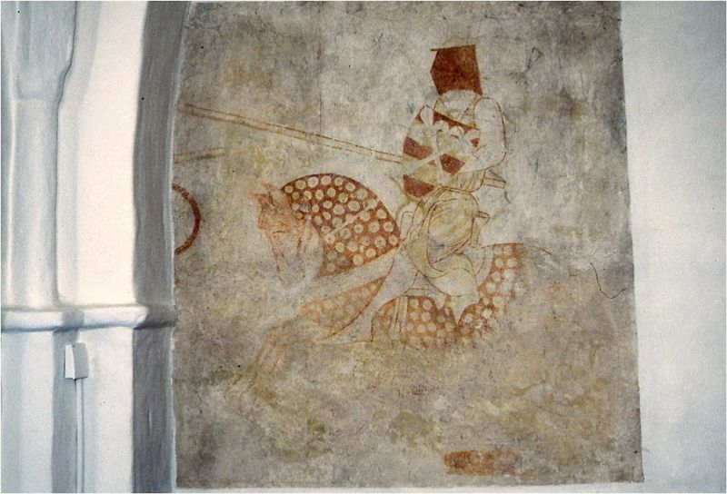 Fårevejle Kirke (church) in Odsherred Kommune. From apr. 1100